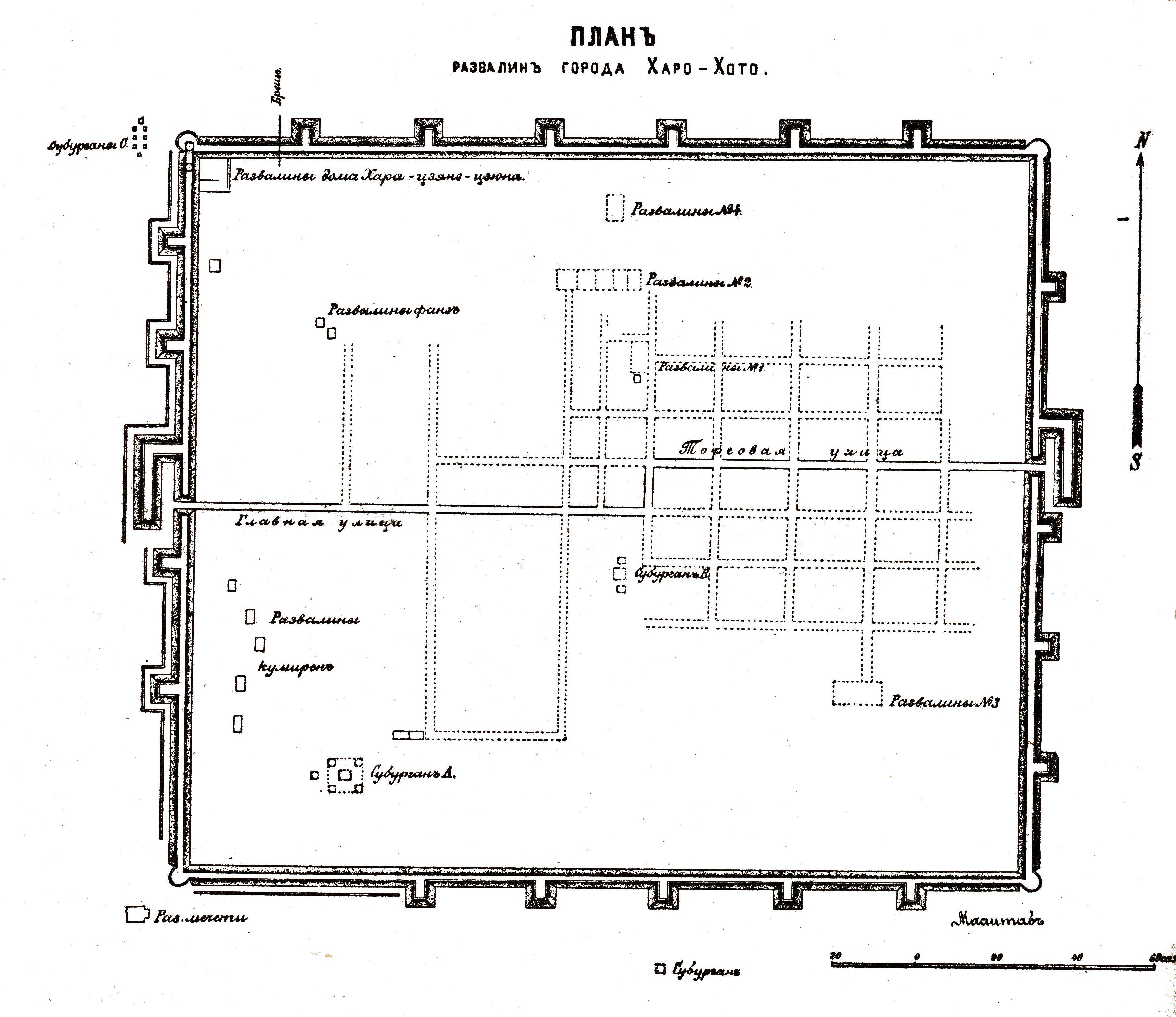 Map from the 1923 book _Mongolia and Amdo and the Dead City of Khara-Khoto_ by Pyotr Kozlov